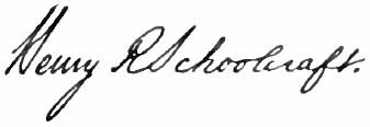 Signature of Henry Rowe Schoolcraft, ethnologist (aboriginal Americans)